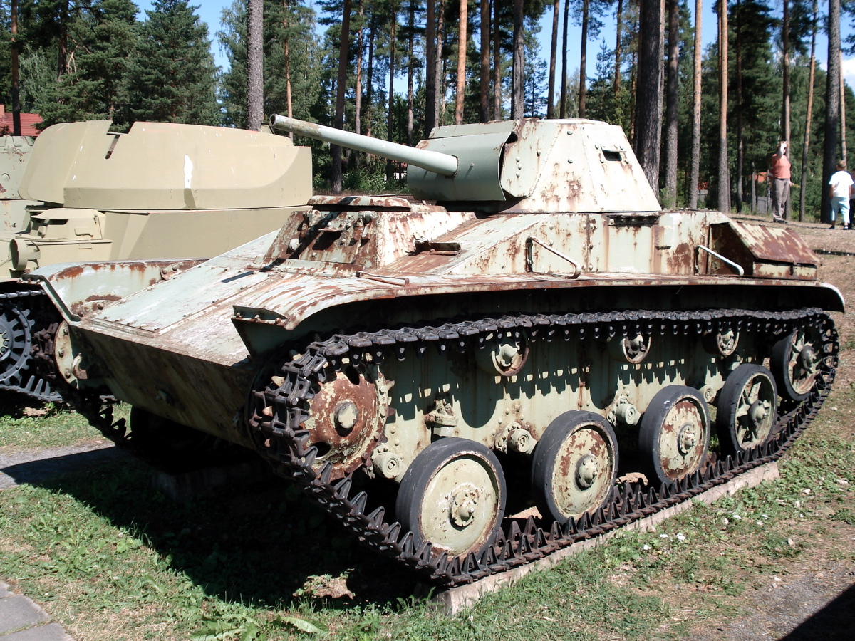 Soviet T-60 light tank, displayed in Finnish Tank Museum (Panssarimuseo) in Parola. Photo taken on July 14, 2006. Source: Photo by me, User:Balcer.